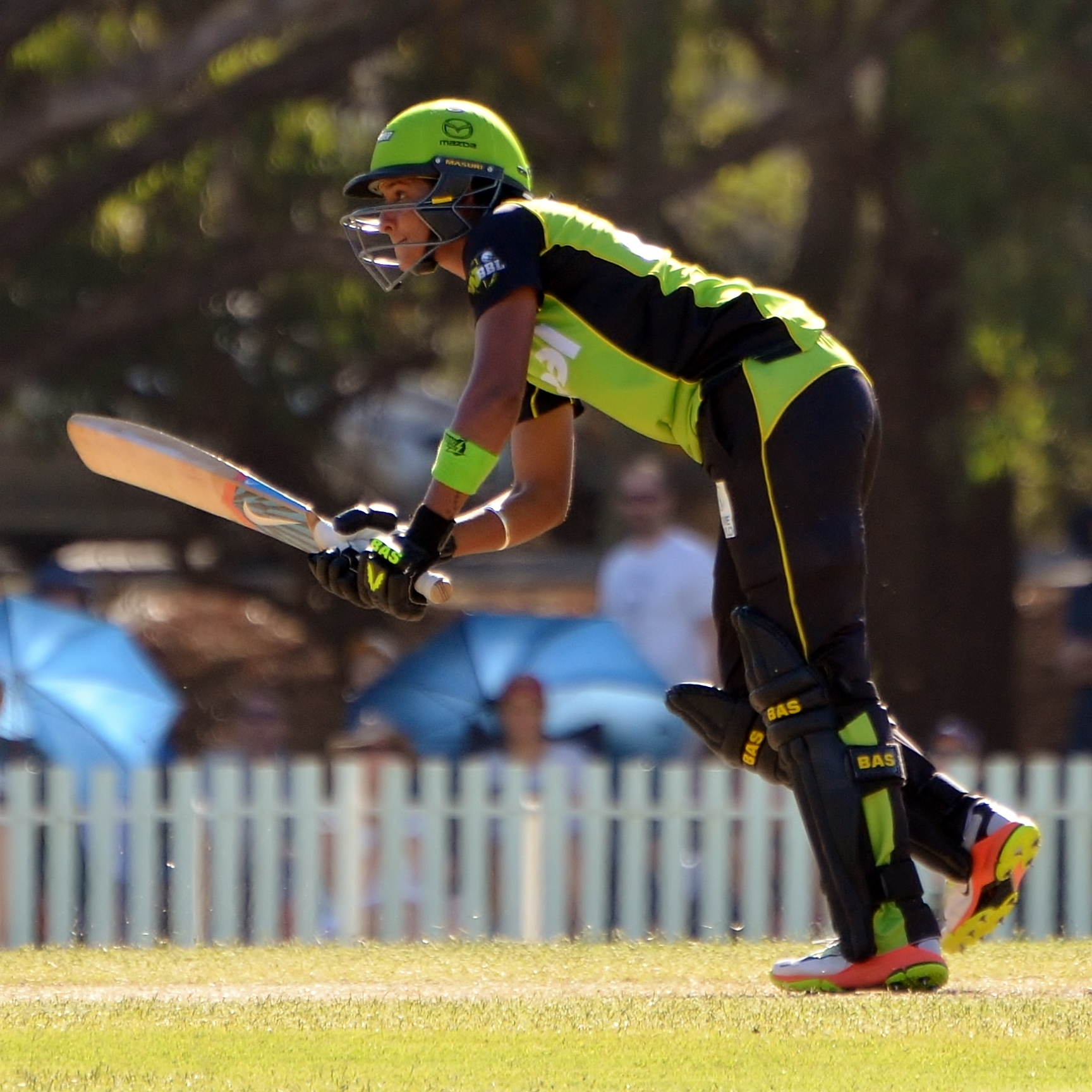 Harmanpreet Kaur batting for Sydney Thunder (WBBL) against Perth Scorchers (WBBL) at Lilac Hill Park, Perth, Australia.